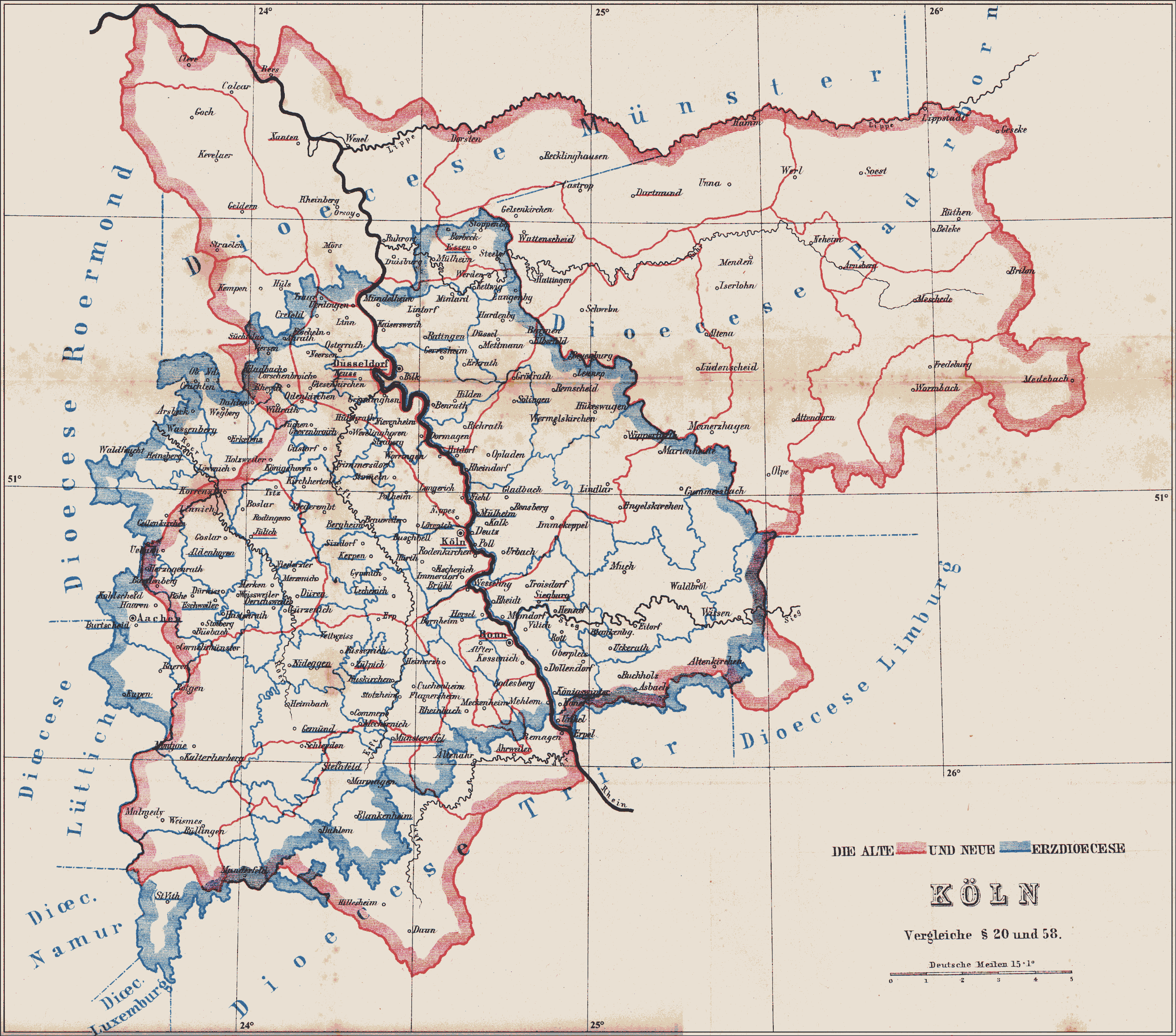 old subdivision map of Archdiocese of Cologne